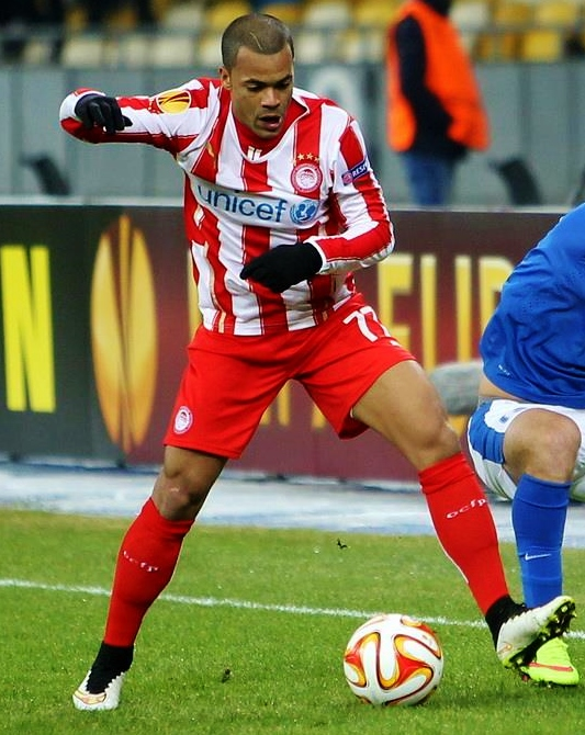 Mathieu Dossevi